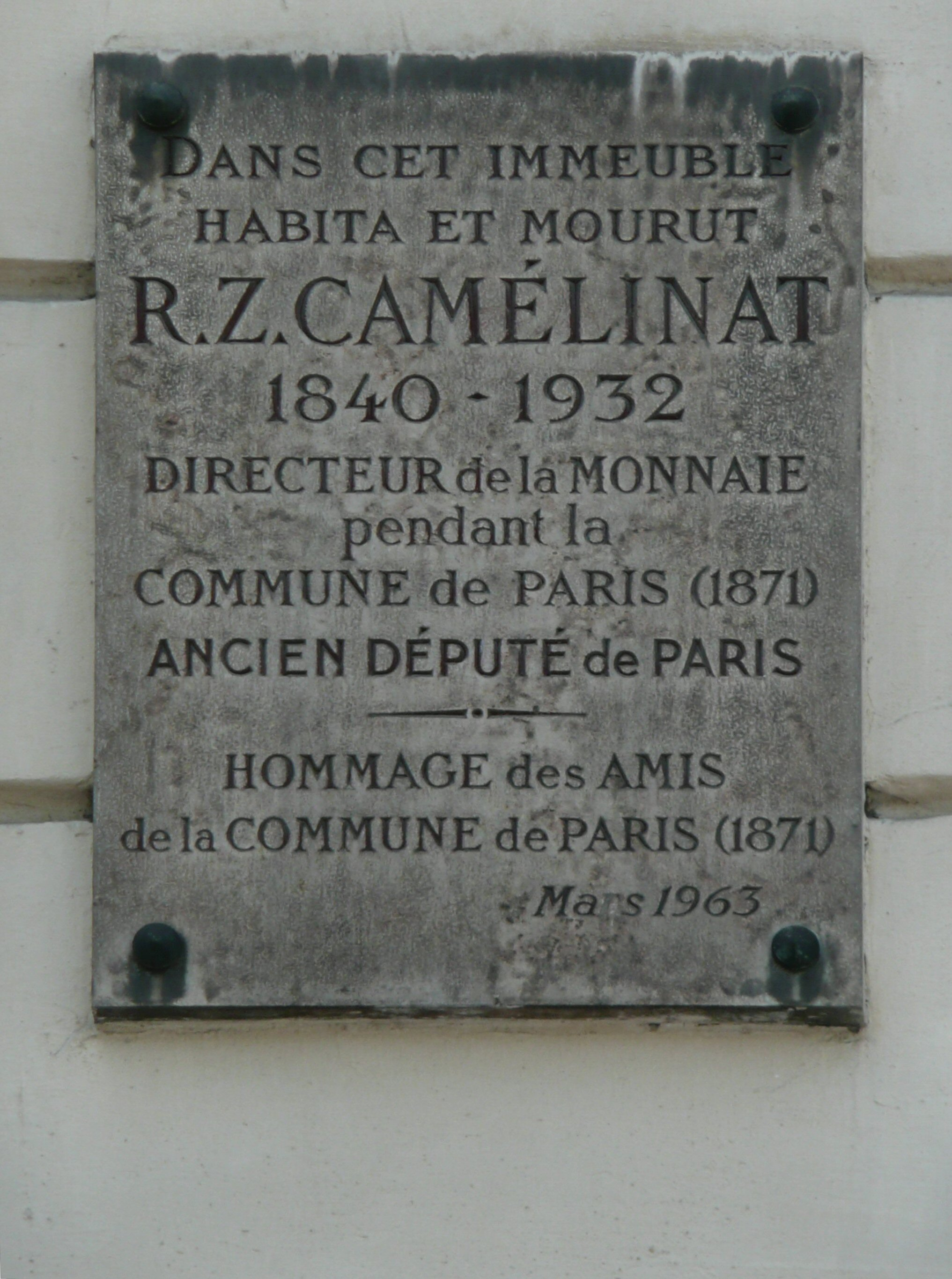 Plaque affixed on the front facade of the building inhabited by Zéphyrin Camélinat located 137 rue de Belleville (at the corner of rue Lassus) in Paris 19th arrondissement